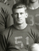 Elmer Gedeon with the 1938 University of Michigan football team. Cropped to show the player, enlarged about 140%